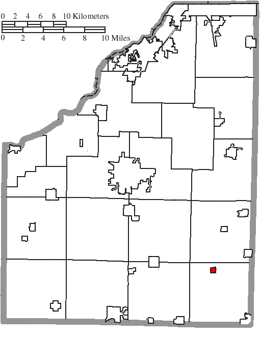 Map of the municipal and township boundaries of Wood County, Ohio, United States, as of the 2000 census, with the location of the village of West Millgrove highlighted. Township borders are shown only in unincorporated areas in order to differentiate incorporated and unincorporated areas more clearly.